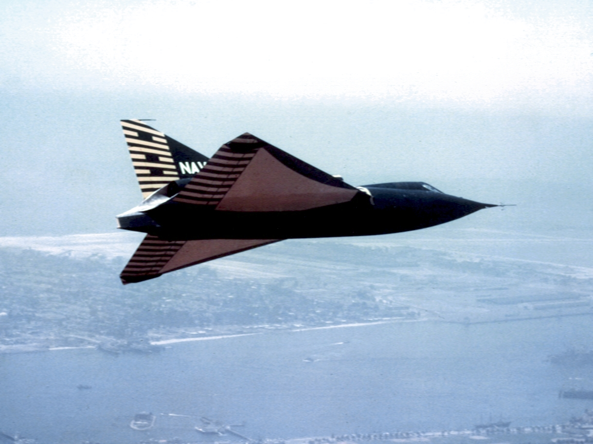 A U.S. Navy Convair XF2Y-1 Sea Dart in flight over San Diego, California (USA).